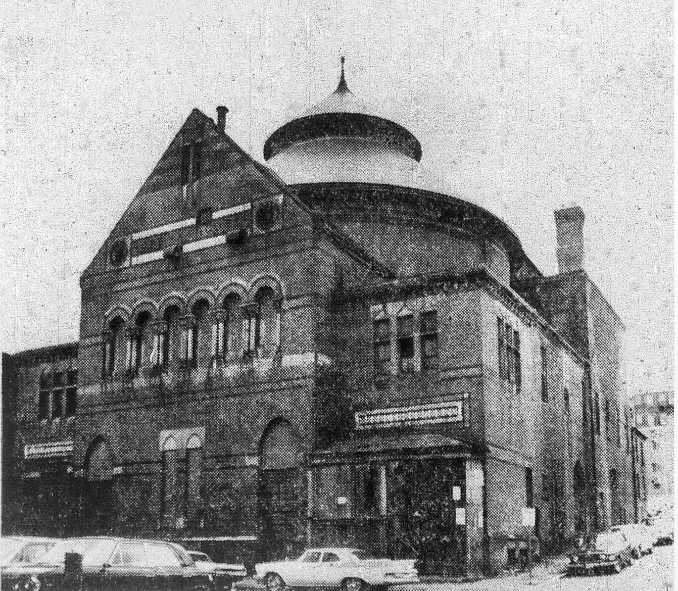 The Holyoke Opera House as it appeared in 1967, months prior to the fire which razed the building